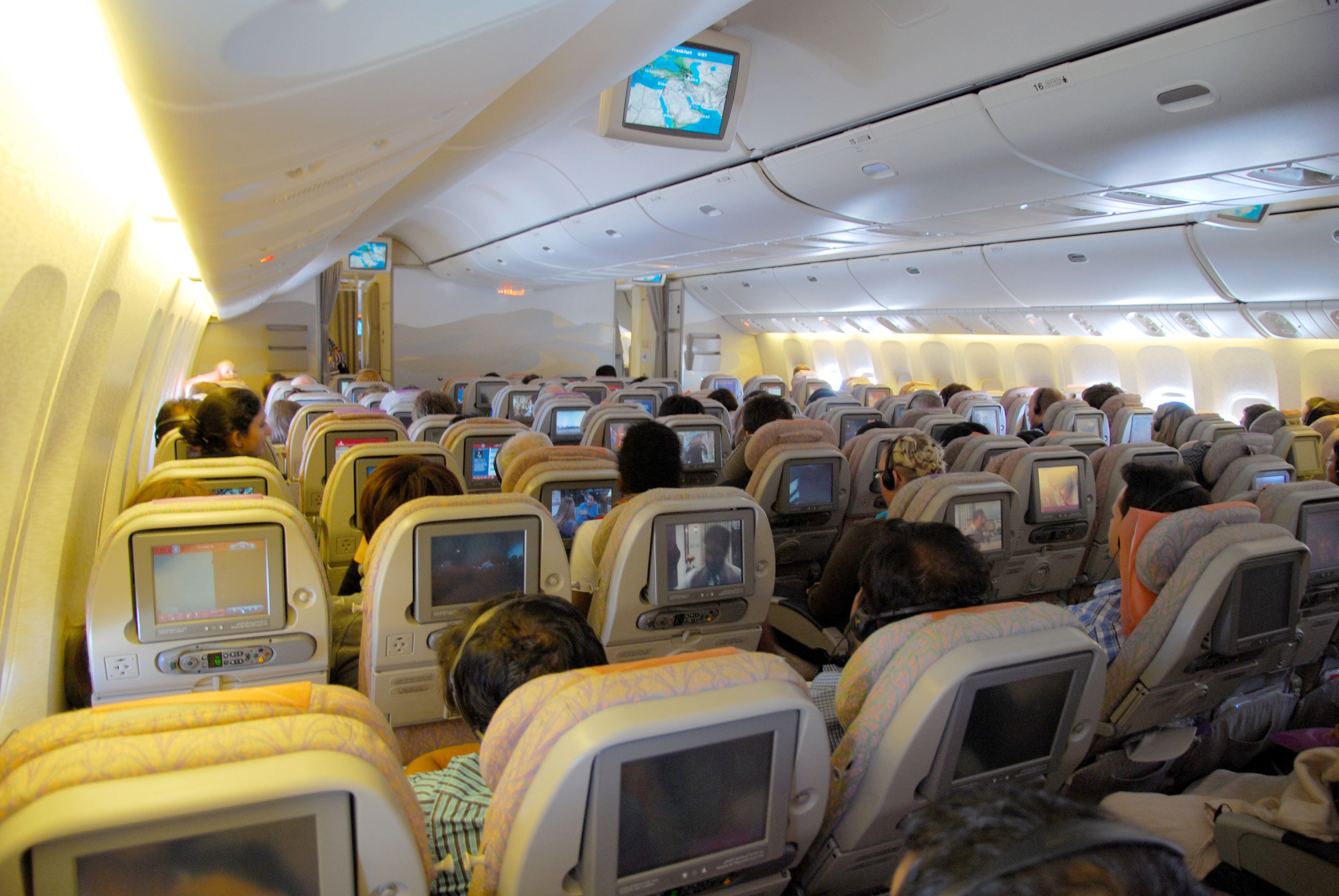 Inflight towards Frankfurt Emirates Boeing 777-300ER (A6-EBS)